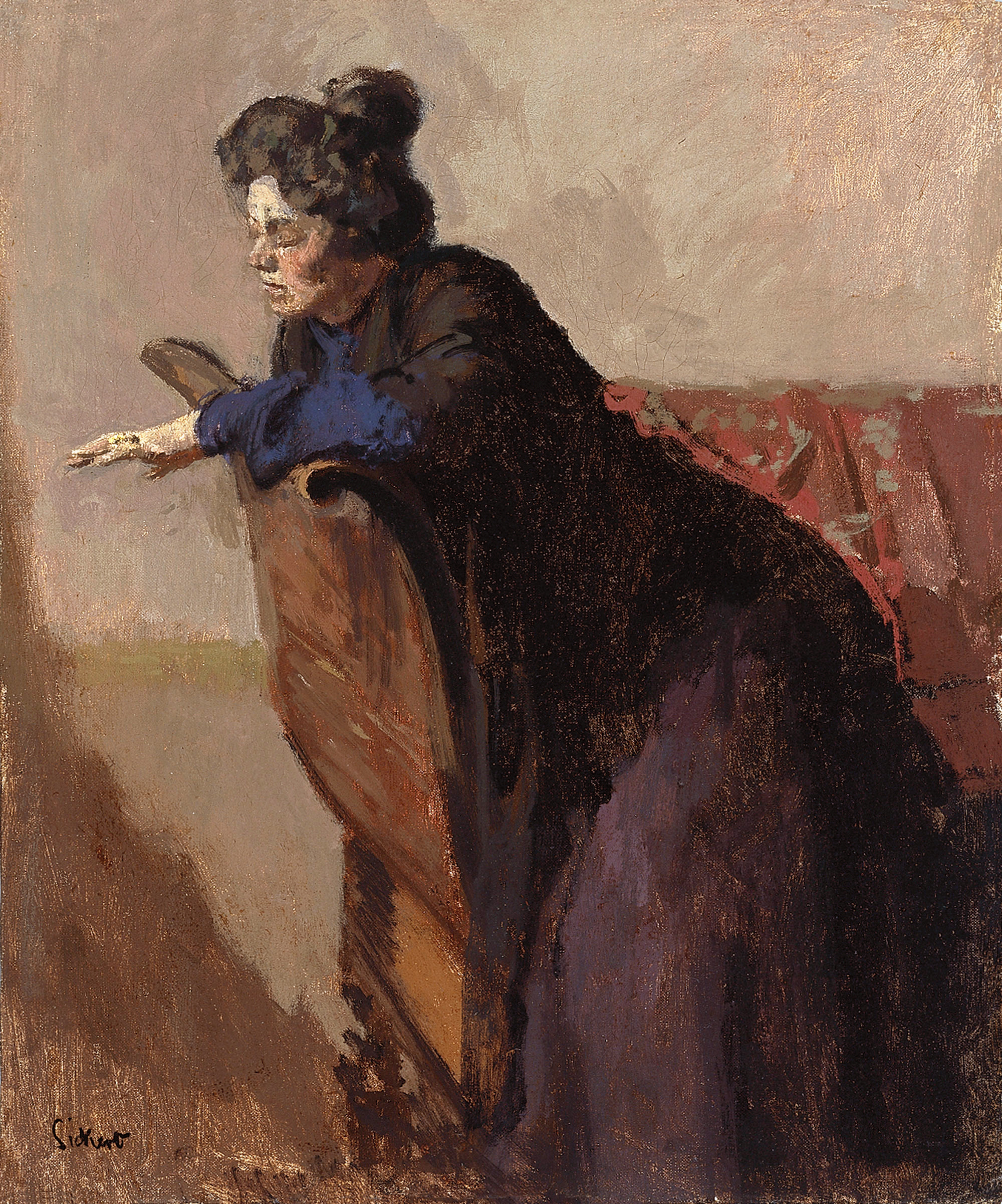 La Giuseppina, the Ring Oil on canvas 45.7 x 38.2 cm 1903-1905 signed b.l.: Sickert